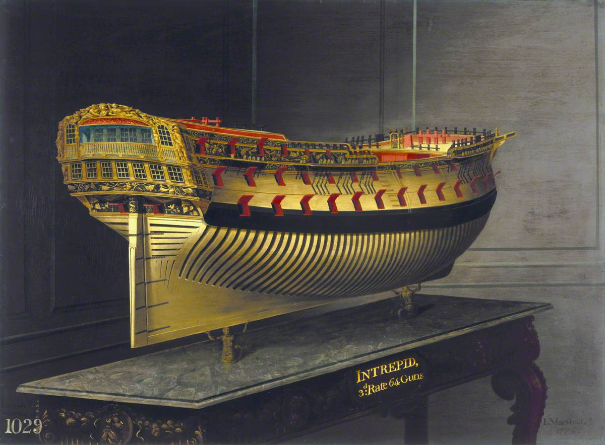 HMS Intrepid 3rd rate 64 guns stern 1774